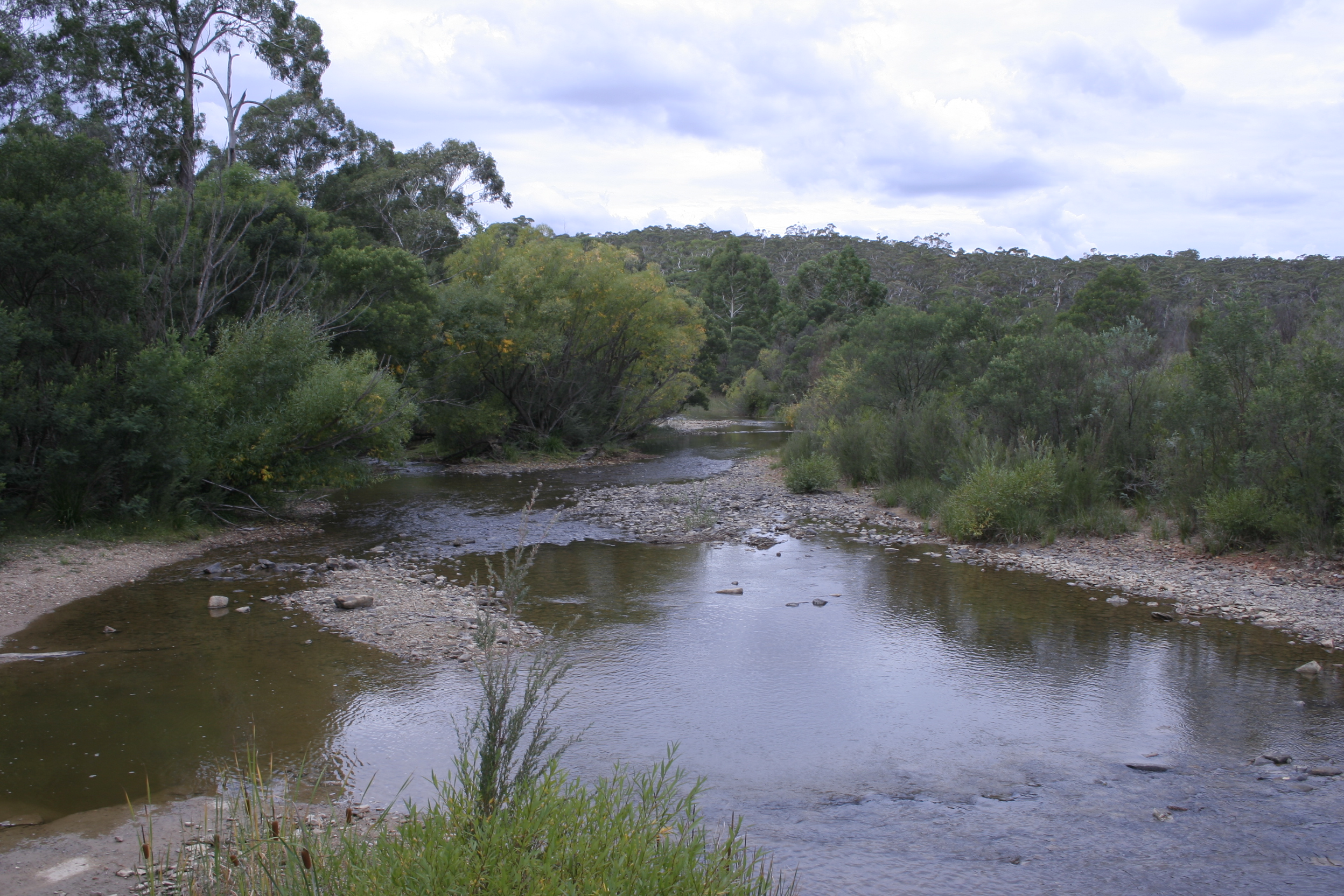 Shoalhaven River at Oallen Ford